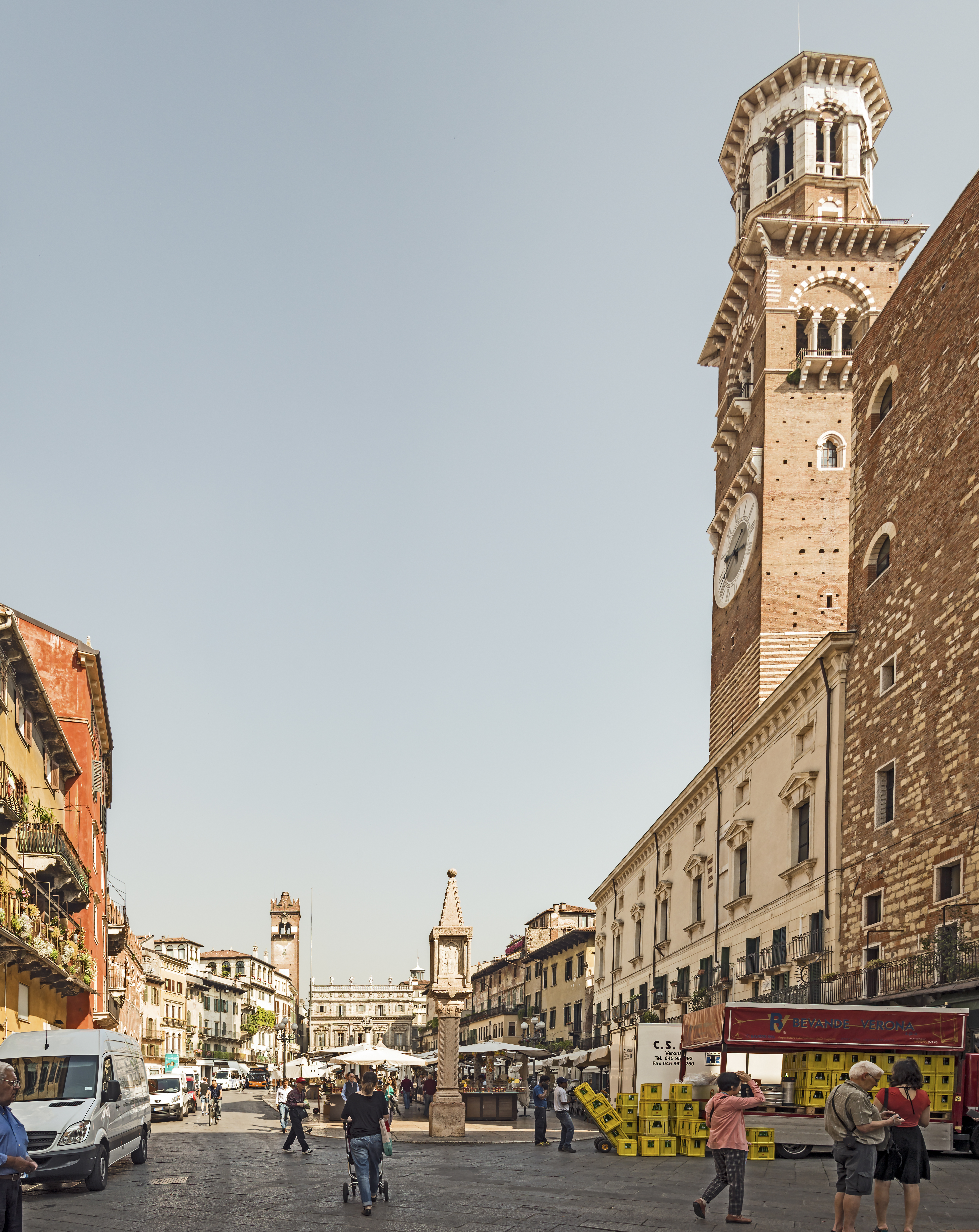 Piazza delle Erbe and and Torre dei Lamberti in Verona. View in full, from the south.